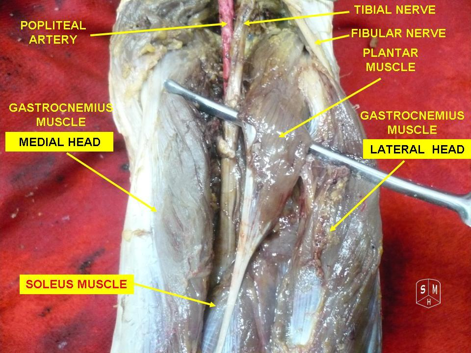 Anatomical dissection